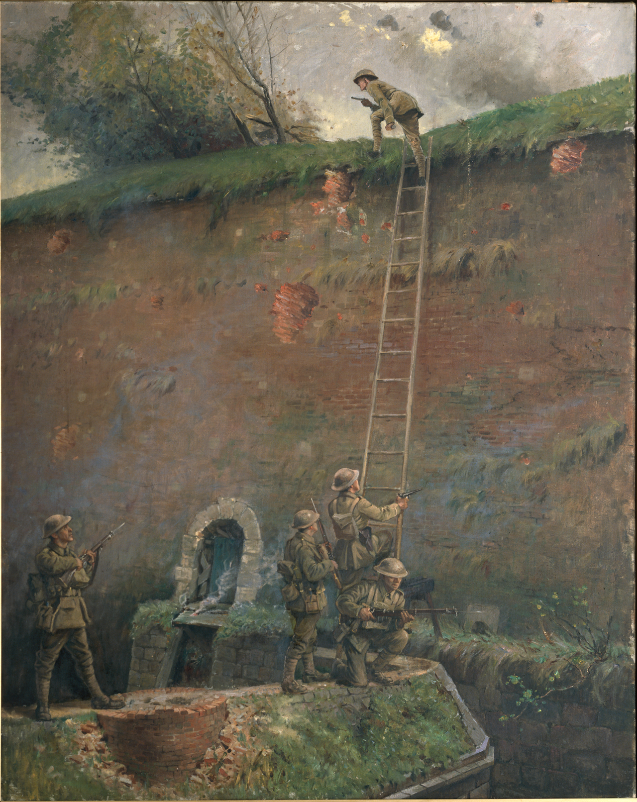 New Zealand troops’ last major action of the First World War was the capture of Le Quesnoy in November 1918, a week before the armistice. They scaled ladders set against the ancient walls of the old fortress town.